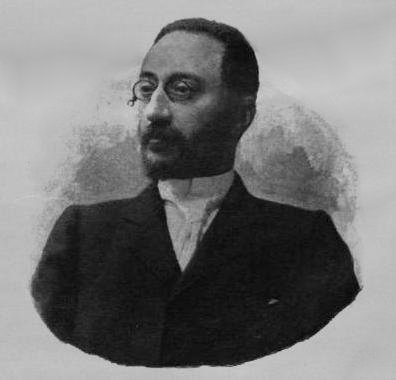 Portrait of Zsigmond Kornfeld